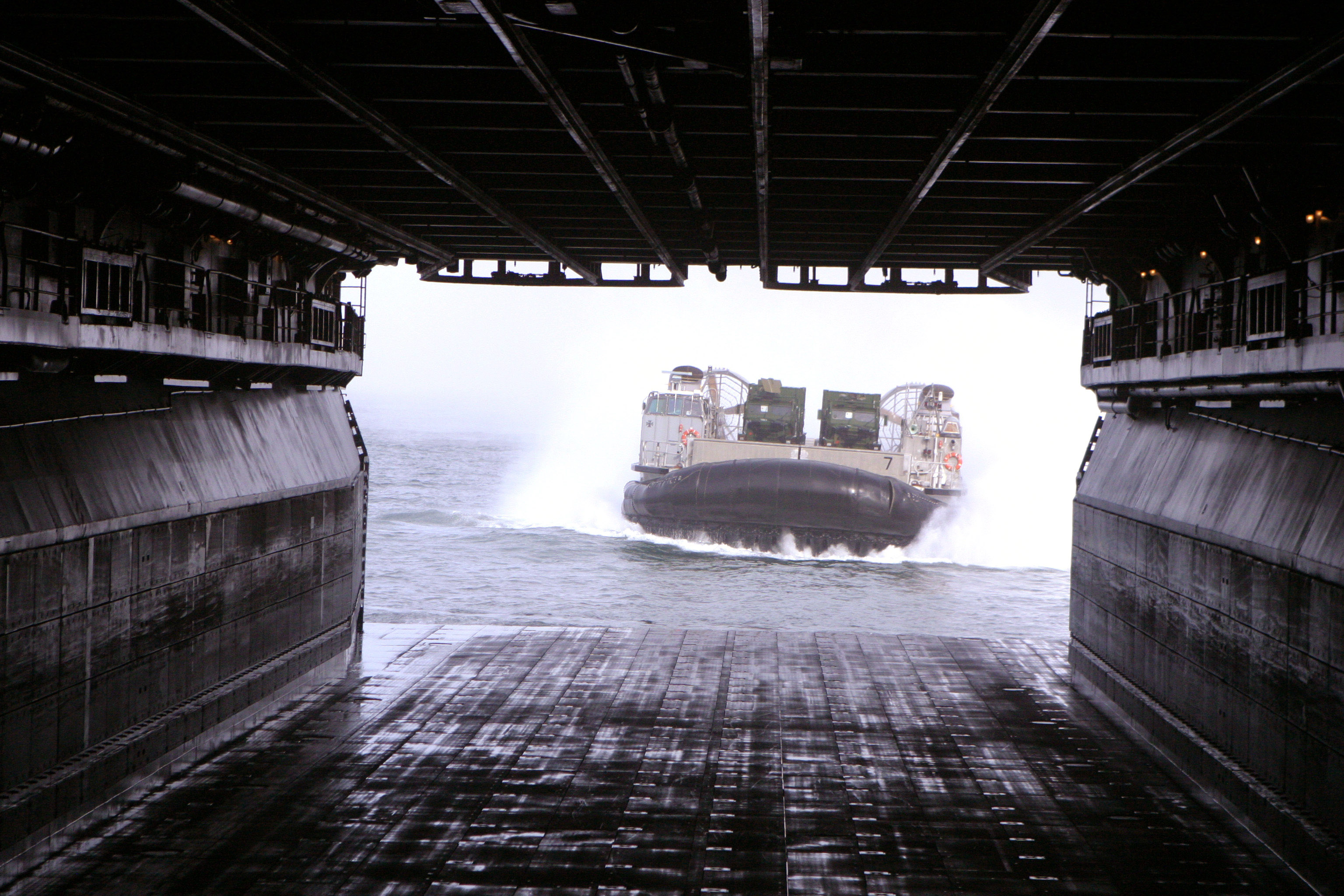 Atlantic Ocean (Jan. 5, 2006) - A Landing Craft Air Cushion (LCAC) enters the well deck of amphibious assault ship USS Bataan (LHD 5), with vehicles and troops assigned to 26th Marine Expeditionary Unit (26 MEU). The onload is in preparation for a deployment in support of the global war on terrorism. U.S. Marine Corp photo by Lance Cpl. Patrick M. Johnson-Campbell (RELEASED)